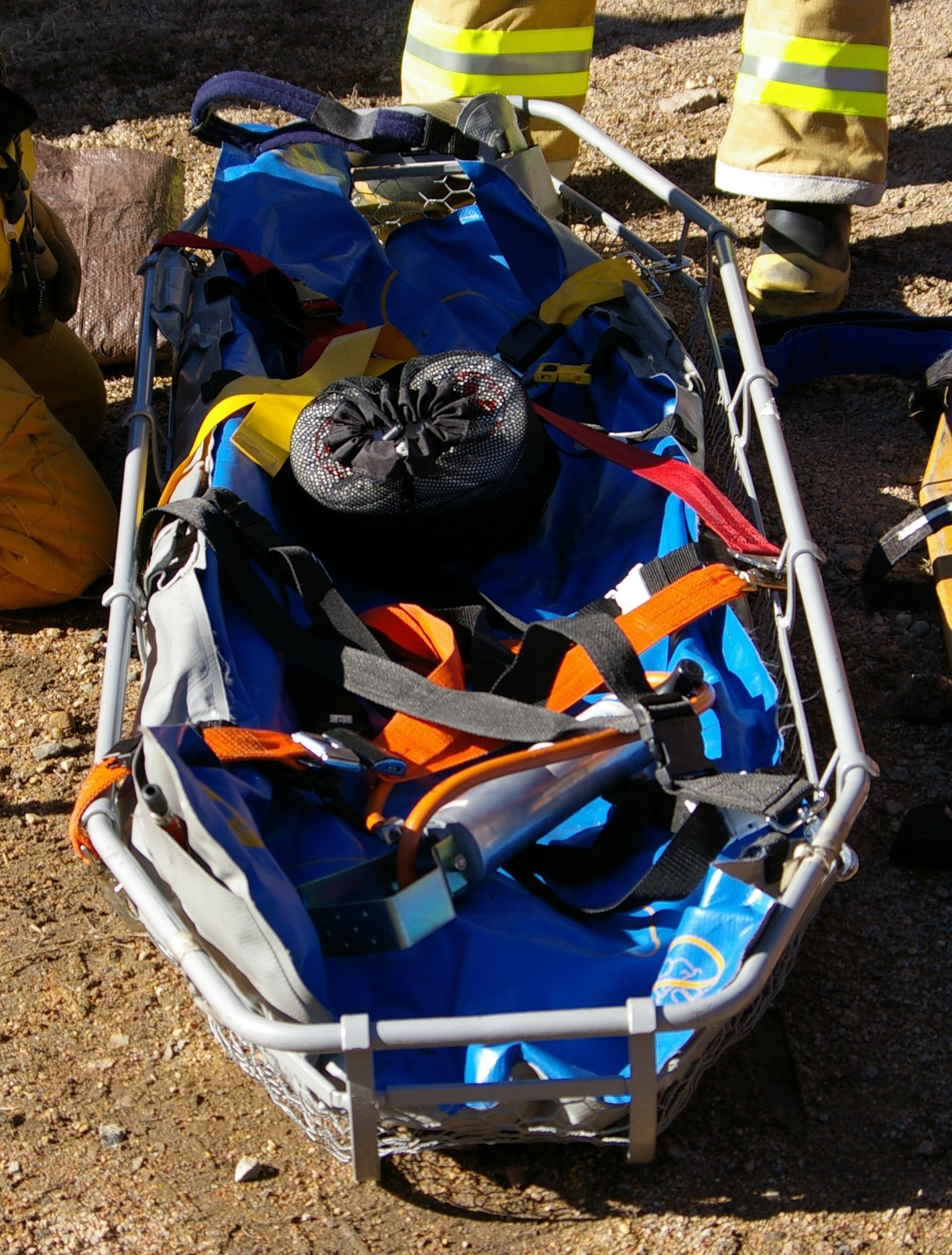 A rescue basket used in a fire department. The blue bag is a vacuum splint that covers the whole body of the person in the basket.